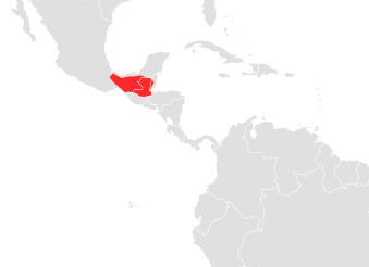 Distribution of Balantiopteryx io